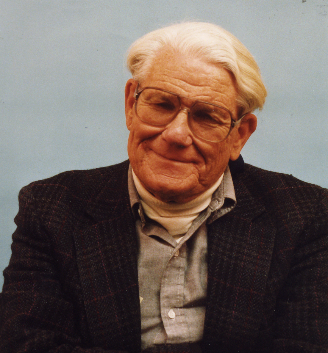 This a picture of scientist O.J. Kleppa from family records